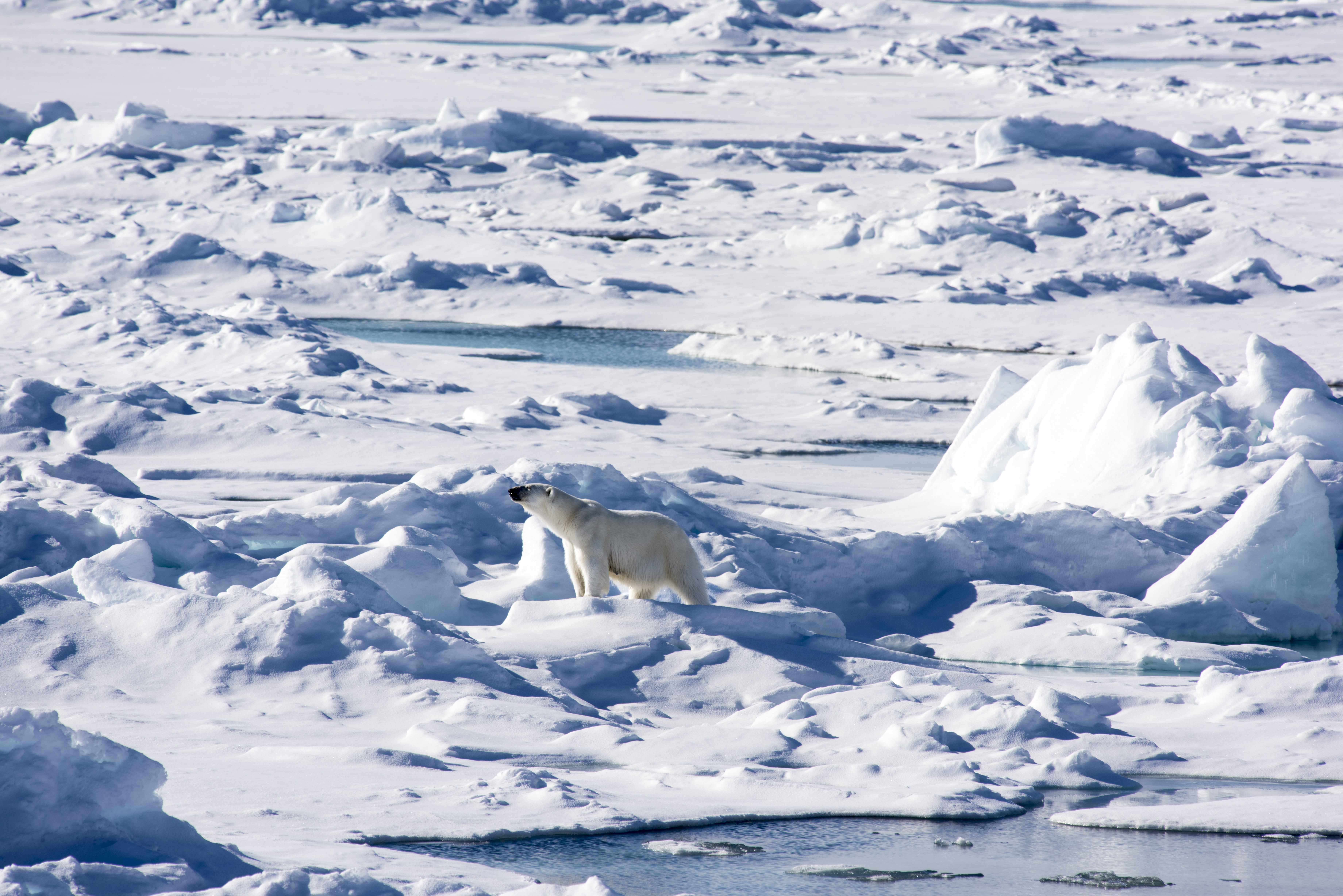 NORTH POLE North Pole Keep